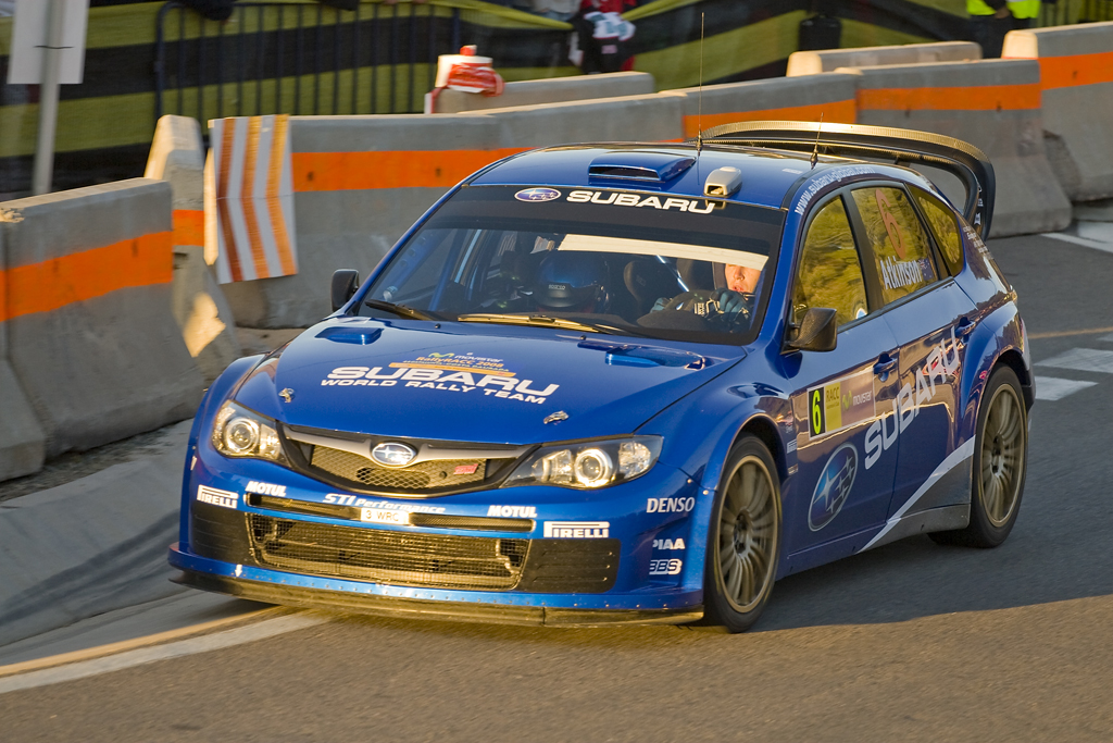 Chris Atkinson driving his Subaru Impreza WRC2008 at the 2008 Rally Catalunya.